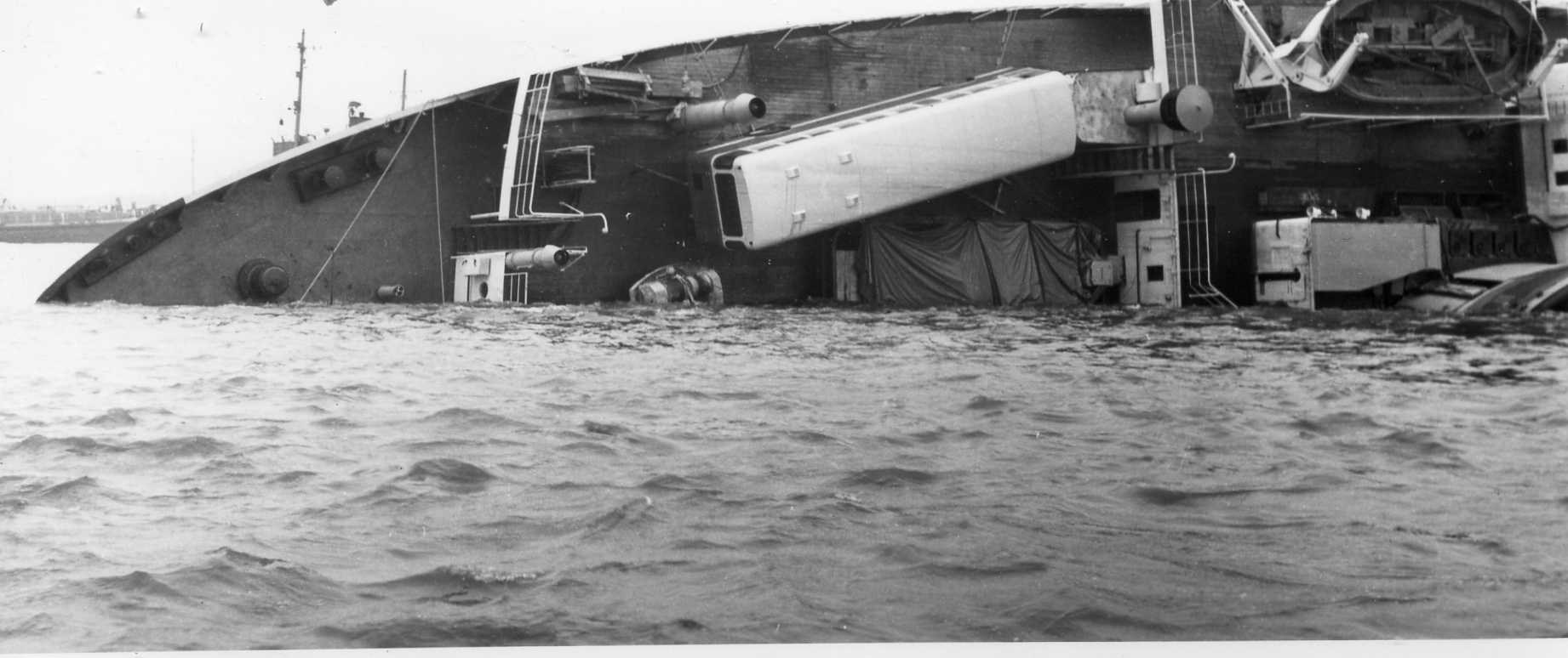 Photos (need re-scanning) of the wrecked MV Magdeburg of the GDR in the Thames. Purchased from Germany, with the stamp of a photographic studio (since disappeared) in Gravesend, Kent. These may have been commissioned by the GDR authorities and I think they ended up in the naval academy in Warnemuende. On the deck may be seen Leyland Tiger Worldmasters Olympics bound for Havana. Photographer was E.John Wells Ltd of 15 Parrock Street, Gravesend. Both premises and firm have vanished. More information about the event and its repercussions is found under my original 1965 photo, with my Instamatic 50 camera the buses may be see in this website